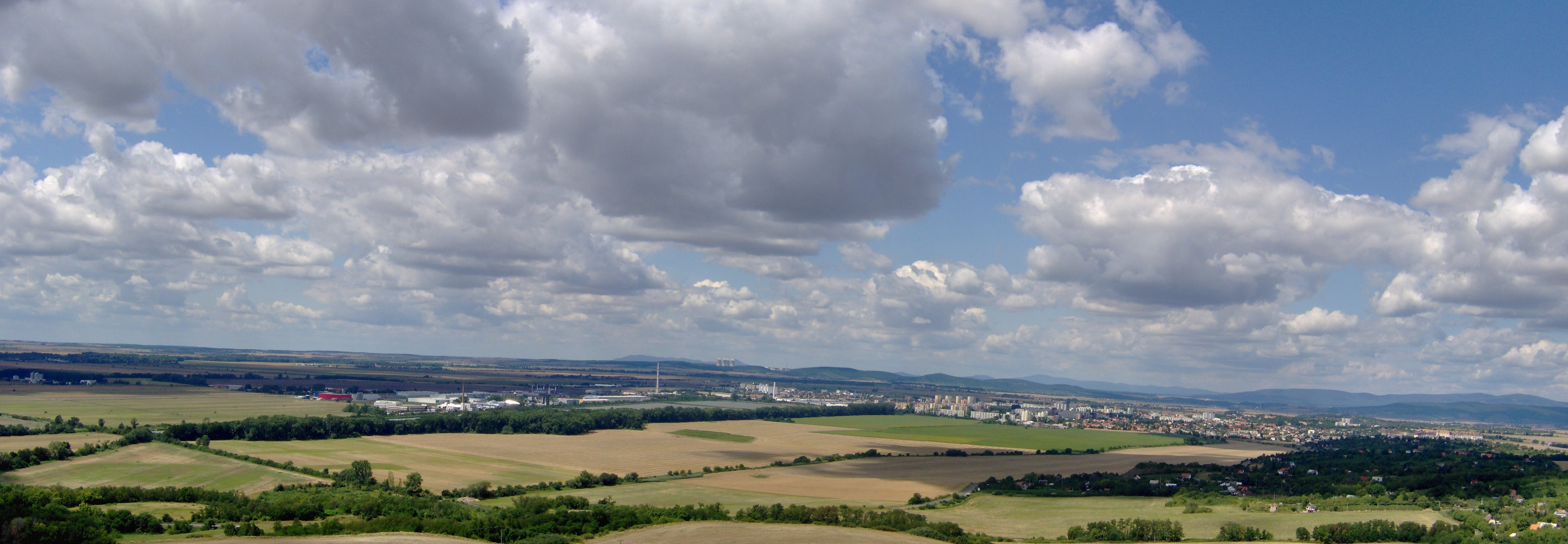 Levice from Siklós